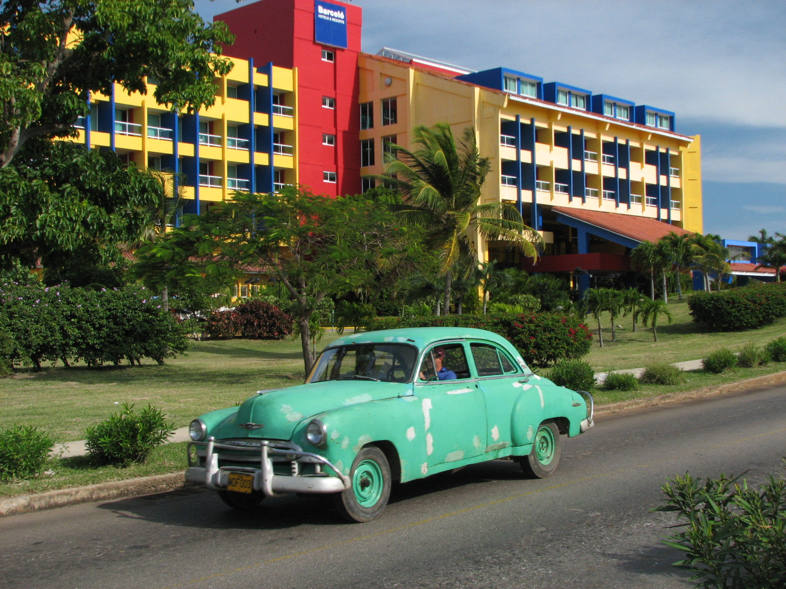 Oltimer in Varadero